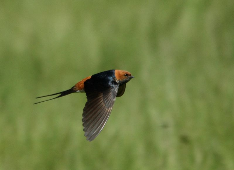 Lesser striped swallow (Cecropis abyssinica) at Hlokozi, KwaZulu-Natal.